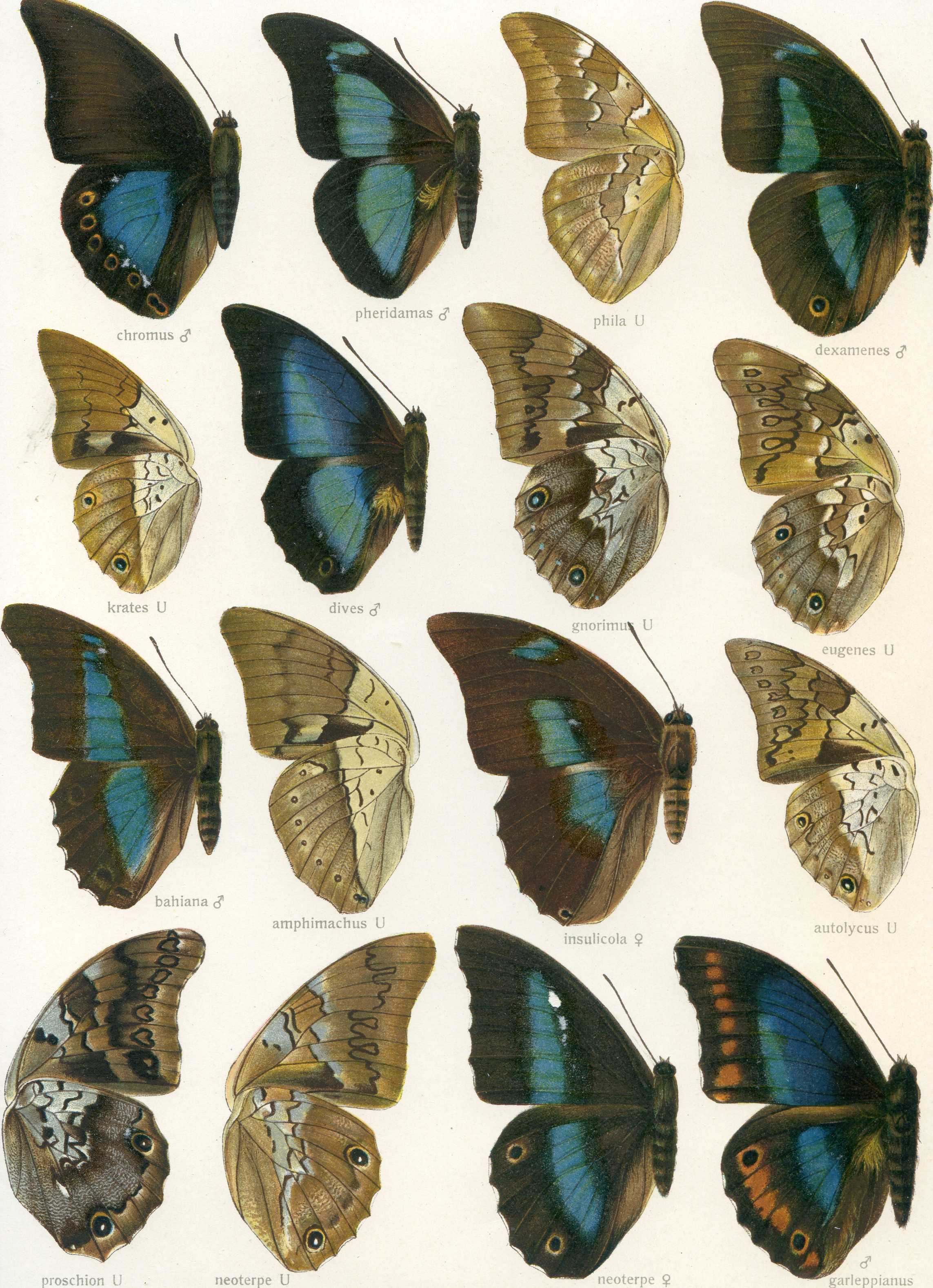 Prepona plate from Adalbert Seitz (ed.) Macrolepidoptera of the World. Noreppa chromus (Guérin-Ménéville, 1844) Male Prepona pheridamas (Cramer, 1777) Male Prepona pheridamas phila Fruhstorfer, 1904 Underside Prepona dexamenes Hopffer, 1874 Prepona dexamenus krates Fruhstorfer, 1904krates U Unavailable name (infrasubspecific) Valid name Prepona omphale amesia Fruhstorfer, 1904M Prepona pylene gnorima Bates, 1865 Underside Prepona pylene eugenes Bates, 1865 Underside Prepona pylene bahiana Fruhstorfer, 1897 Male Archaeoprepona amphimachus (Fabricius, 1775) Underside Archaeoprepona demophoon insulicola (Fruhstorfer, 1897) Female autolycus Unavailable name (infrasubspecific) Valid name Prepona laertes demodice (Godard, [1824]) U proschion Fruhstorfer Synonym Valid name Prepona pylene Hewitson, [1854] Underside Prepona deiphile neoterpe Honrath, 1884 Underside Prepona deiphile neoterpe Honrath, 1884 Female garleppianus Staudinger, 1898 Valid name Prepona deiphile xenagoras Hewitson, 1875